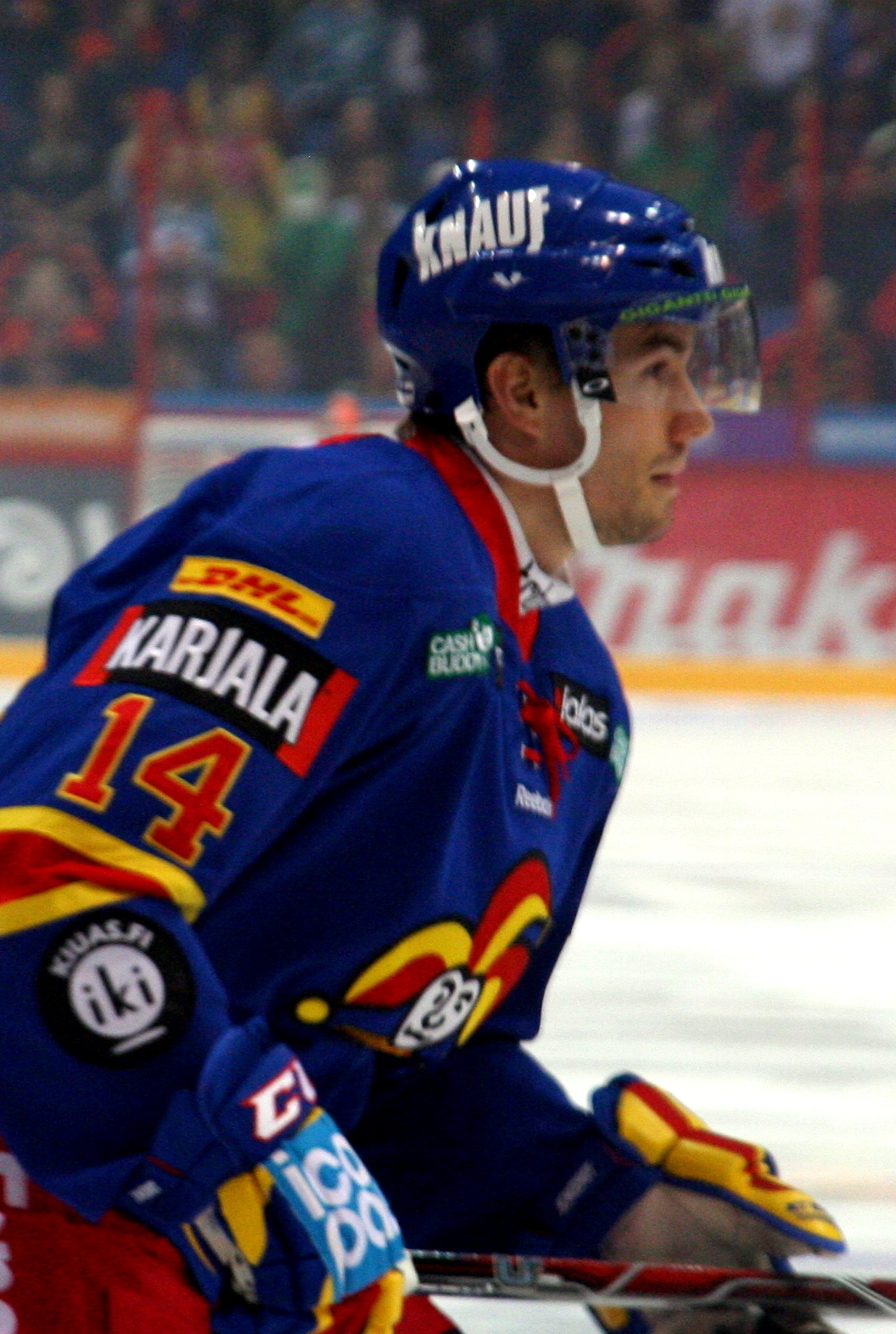 Ice Hockey Team Helsingin Jokerit's Attacker #14 Tomi Mäki